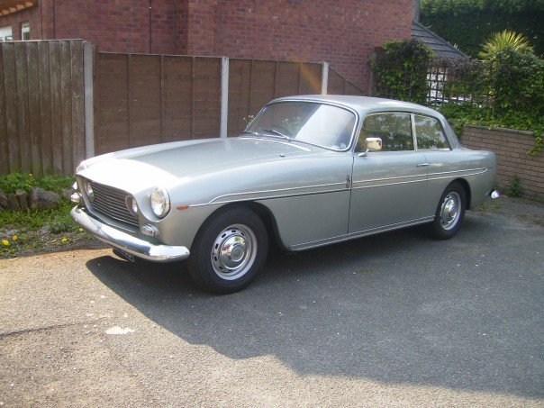 Bristol 410